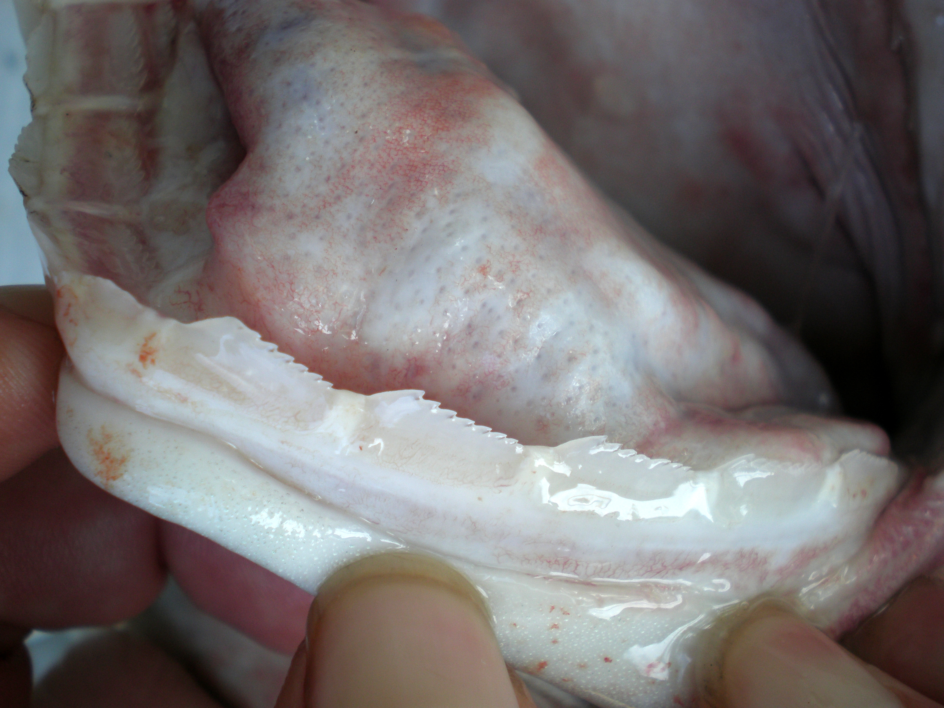 Hexanchus nakamurai. Lower teeth. Locality: near Passe de Dumbéa, off Nouméa, New Caledonia, Coordinates 22°19'670S, 166°12'899E. Total length 1020 mm, Weight 3,600 grams. Date 03 July 2008. This specimen has been identified by Bernard Séret, IRD-MNHN. This photograph is also in FishBase.